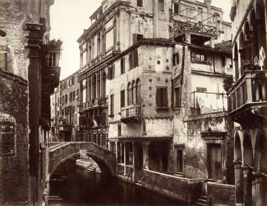 Carlo Naya (1822-1881) - "Palazzo Widman". catalogue #118 ?.